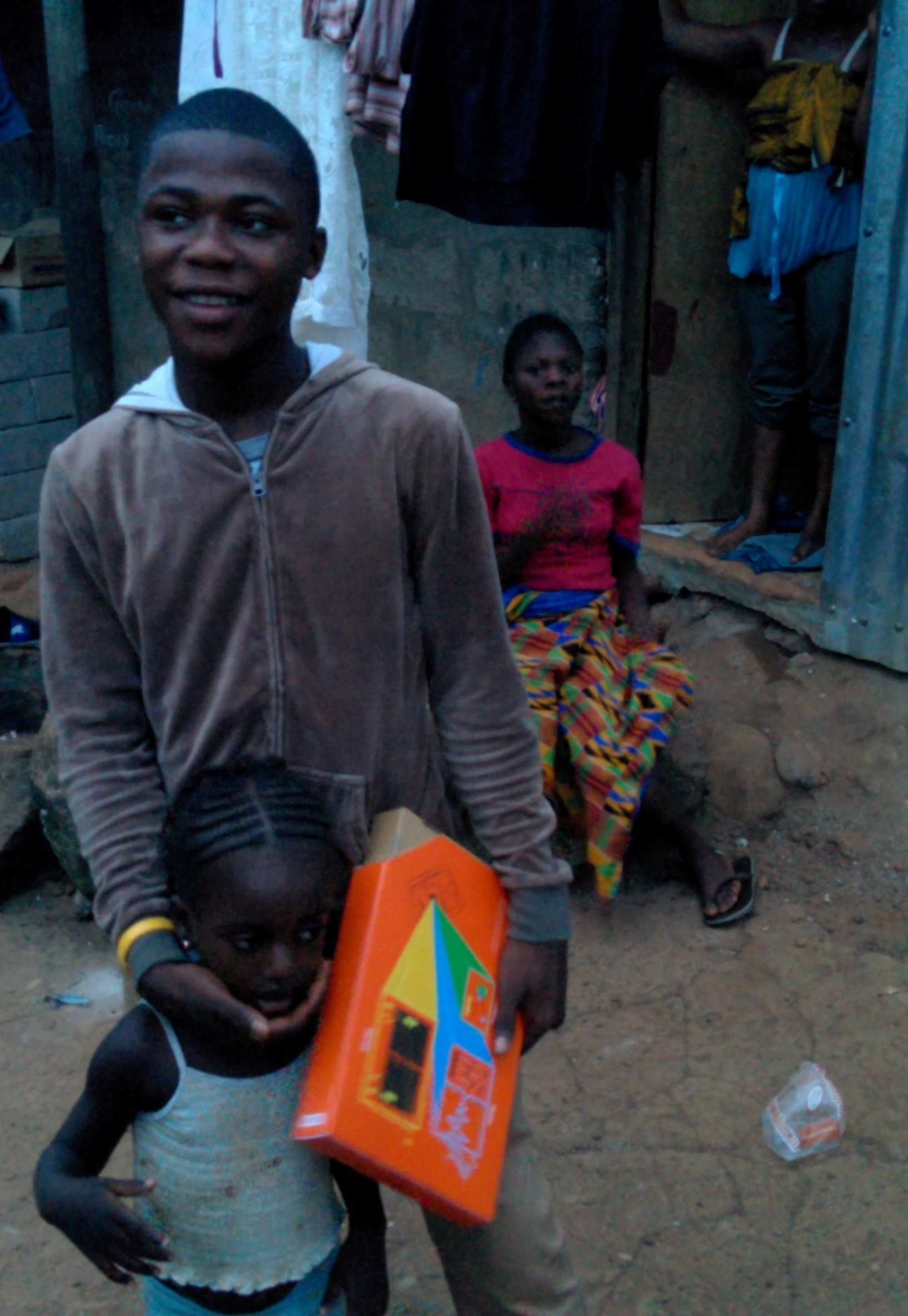 Self-taught teenage engineer Kelvin Doe with his Kano computer kit in Sierra Leone.